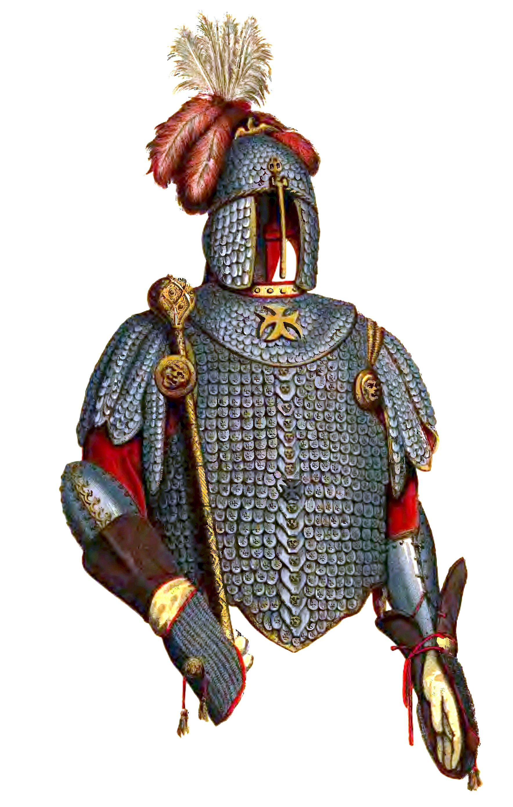 Armour of John III Sobieski in Dresden collection